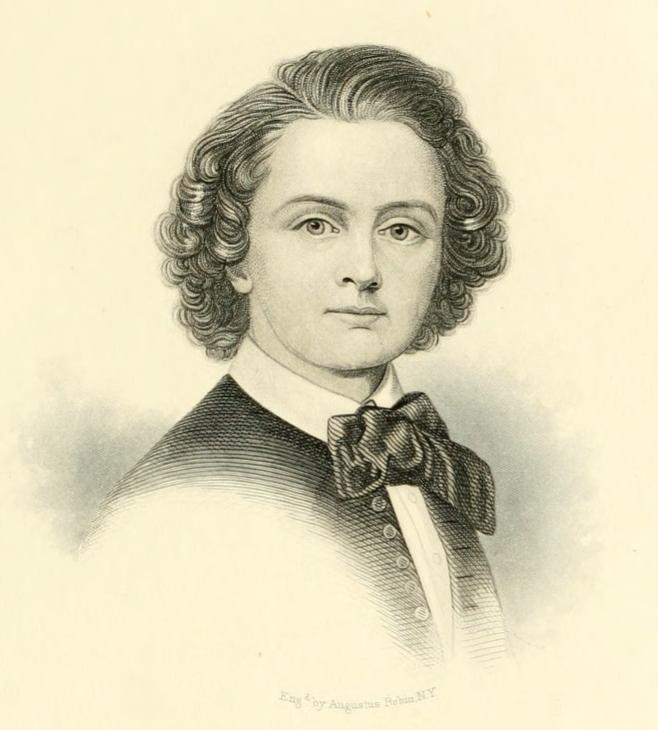 Engraving of Harriet Hosmer depicting her at age 43 or before.